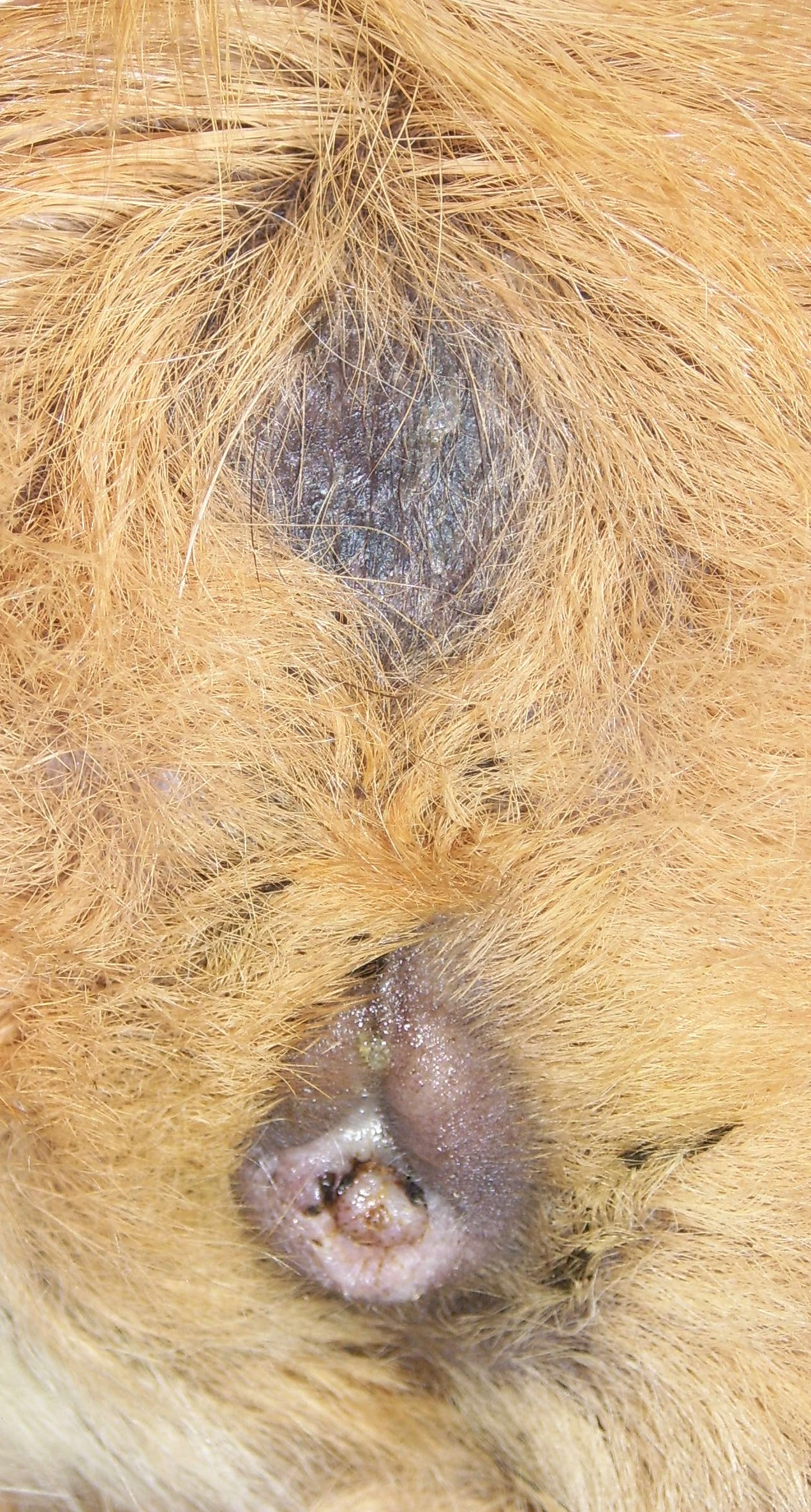 caudal gland of a male sprayed guinea pig